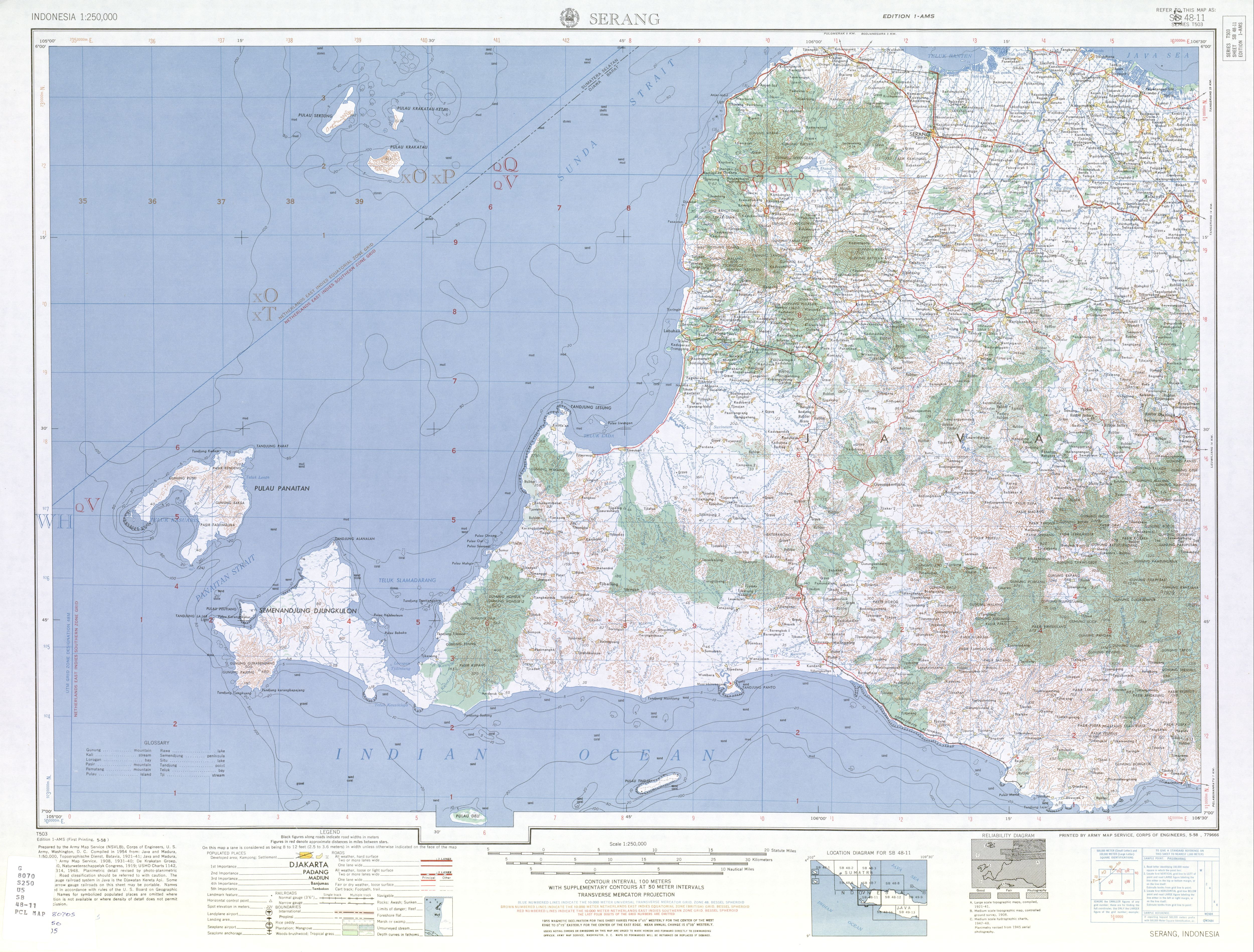 Banten, Indinesia